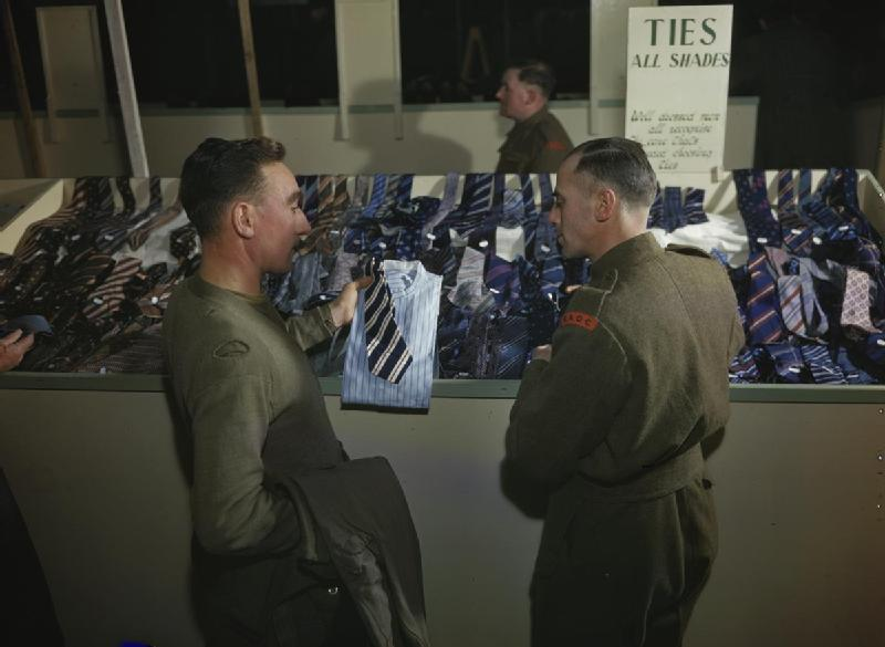 Scenes at a Demobilisation Centre in Britain, 1944 A demobbed soldier, selecting a tie to go with his shirt, is helped by a Royal Army Ordnance Corps member serving at the centre.